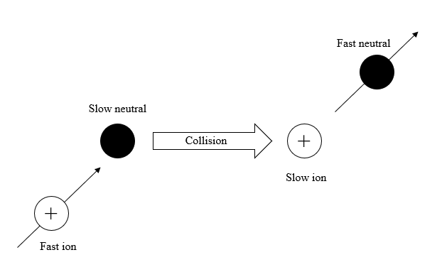 Charge exchange collision between ion and neutral